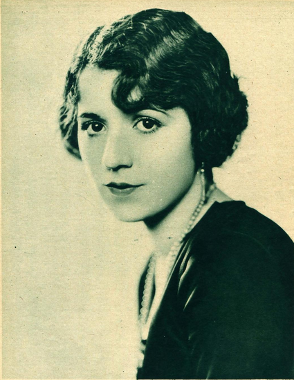 Helen Ferguson, from a 1923 publication